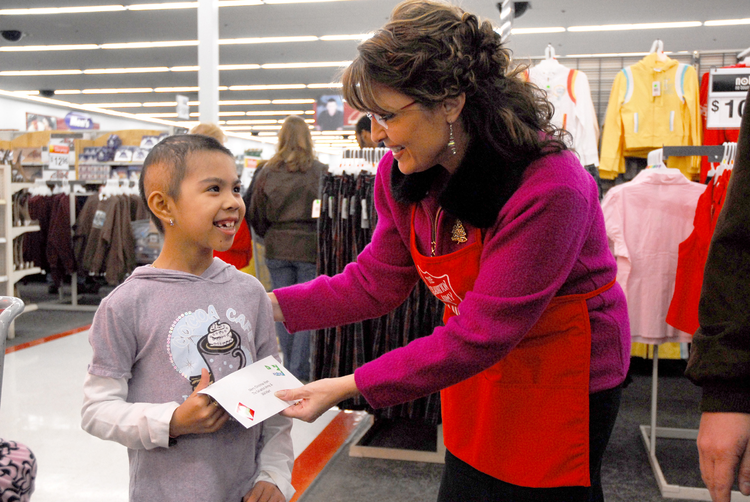 Gov. Sarah Palin presents a gift-card donated by Wal-Mart and The Salvation Army to 7-year-old Charline Fager. Fager is the daughter of Alaska Army National Guard Spc. Kristopher Fager, 207th Aviation.